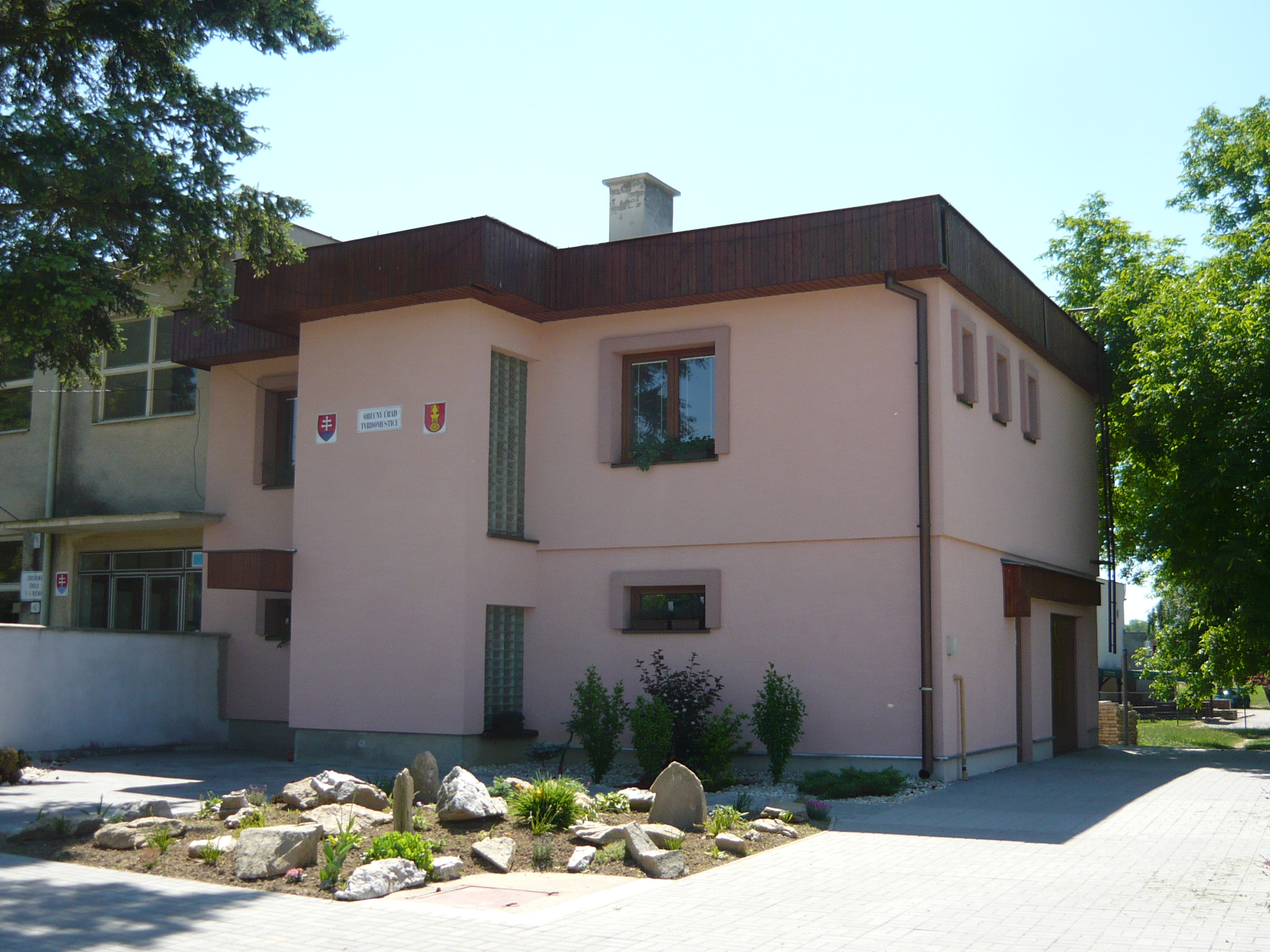 The town hall of Tvrdomestice, Slovakia.